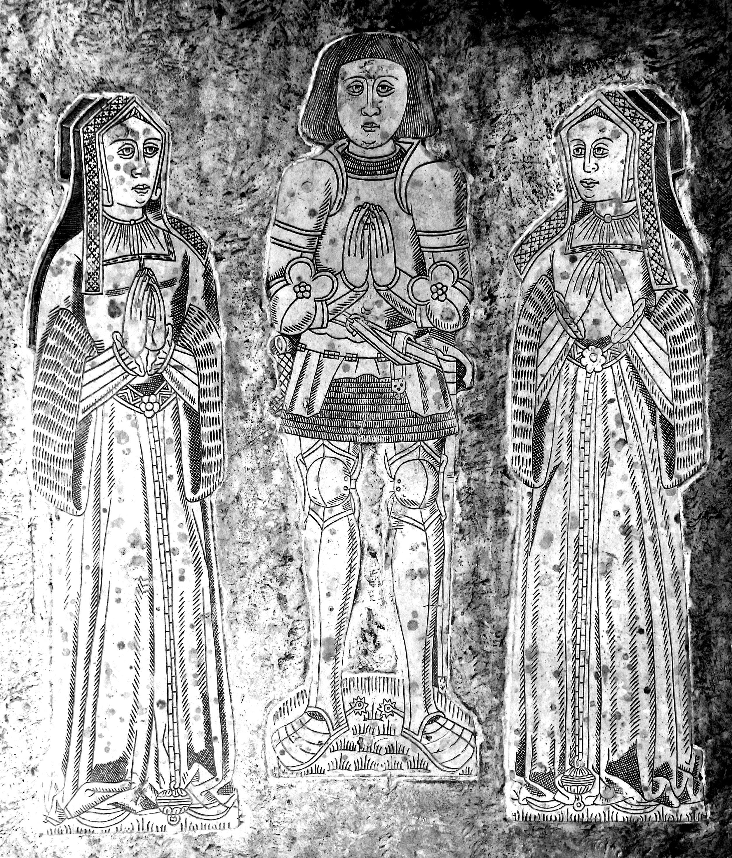 Monumental brasses of Sir John Bassett (1462-1529) of Umberleigh, with his two wives, right: fist wife Ann Denys, left: second wife Honor Grenville. Monochrome negative image, detail from top slab of his chest-tomb, Atherington Church, Devon